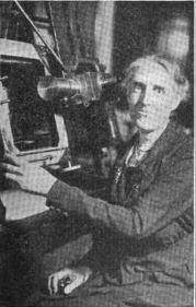 Henrietta S. Leavitt, from a 1921 publication. Photograph by William Henry.